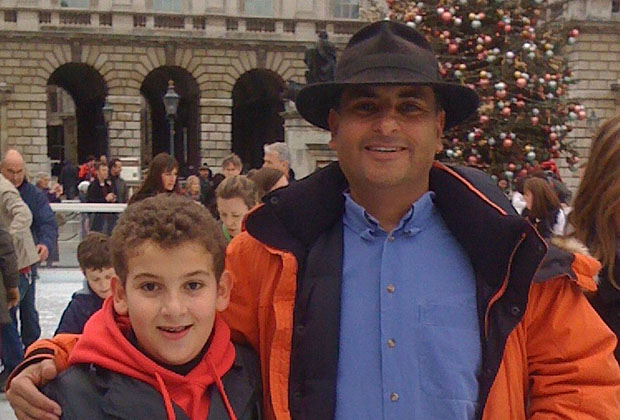 Son, Charles Atherton-Laurie and his father Paul Atherton, on the Skate Ice Rink in Somerset House, London - Used in the film Our London Lives.